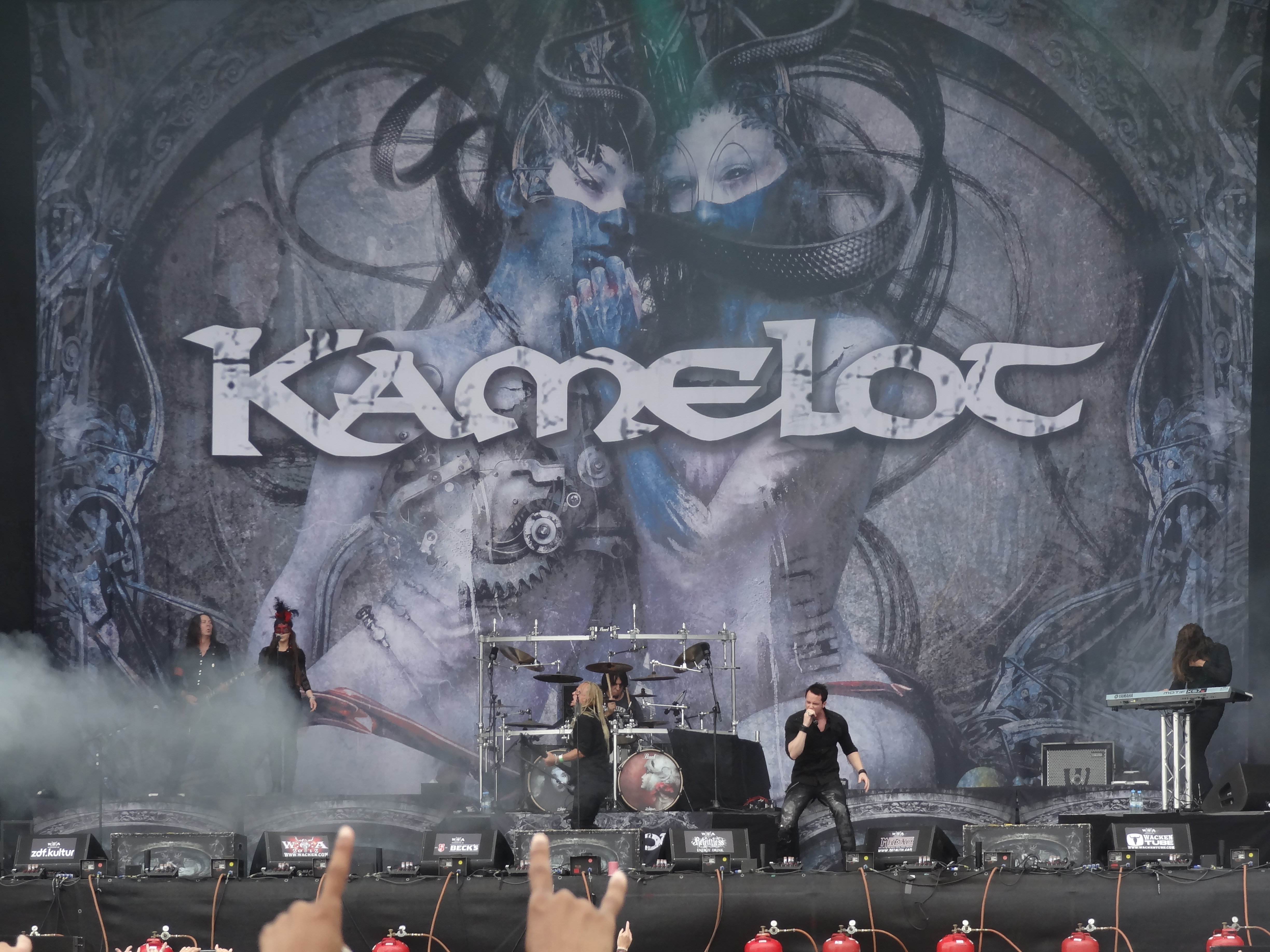 Kamelot at WOA 2012